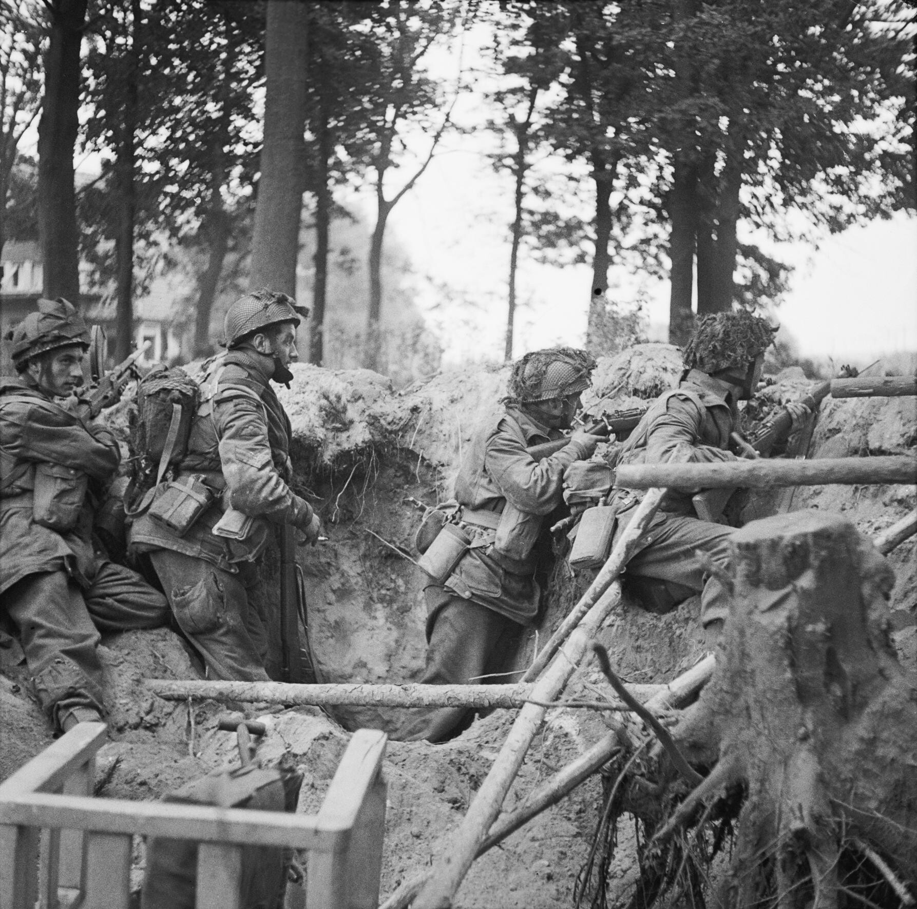 Four men of the 1st Paratroop Battalion, 1st (British) Airborne Division, take cover in a shell hole outside Arnhem. 17 September 1944. Licence: Unrestricted in due to IWM